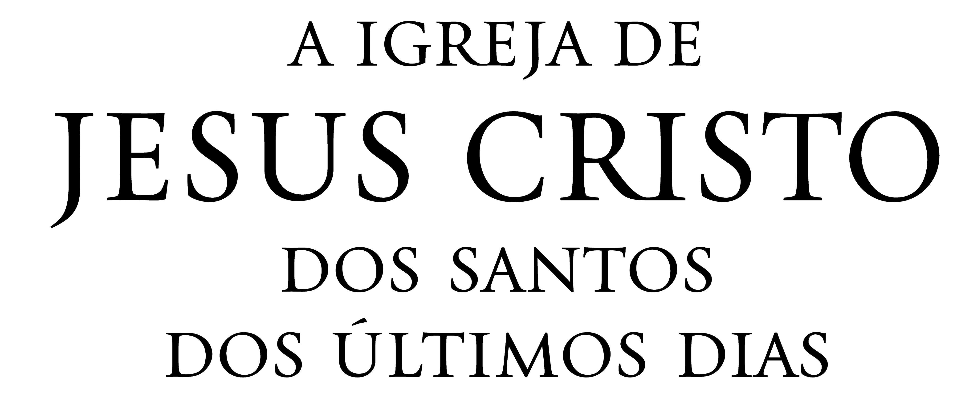 LDS Church Logo in Portuguese.